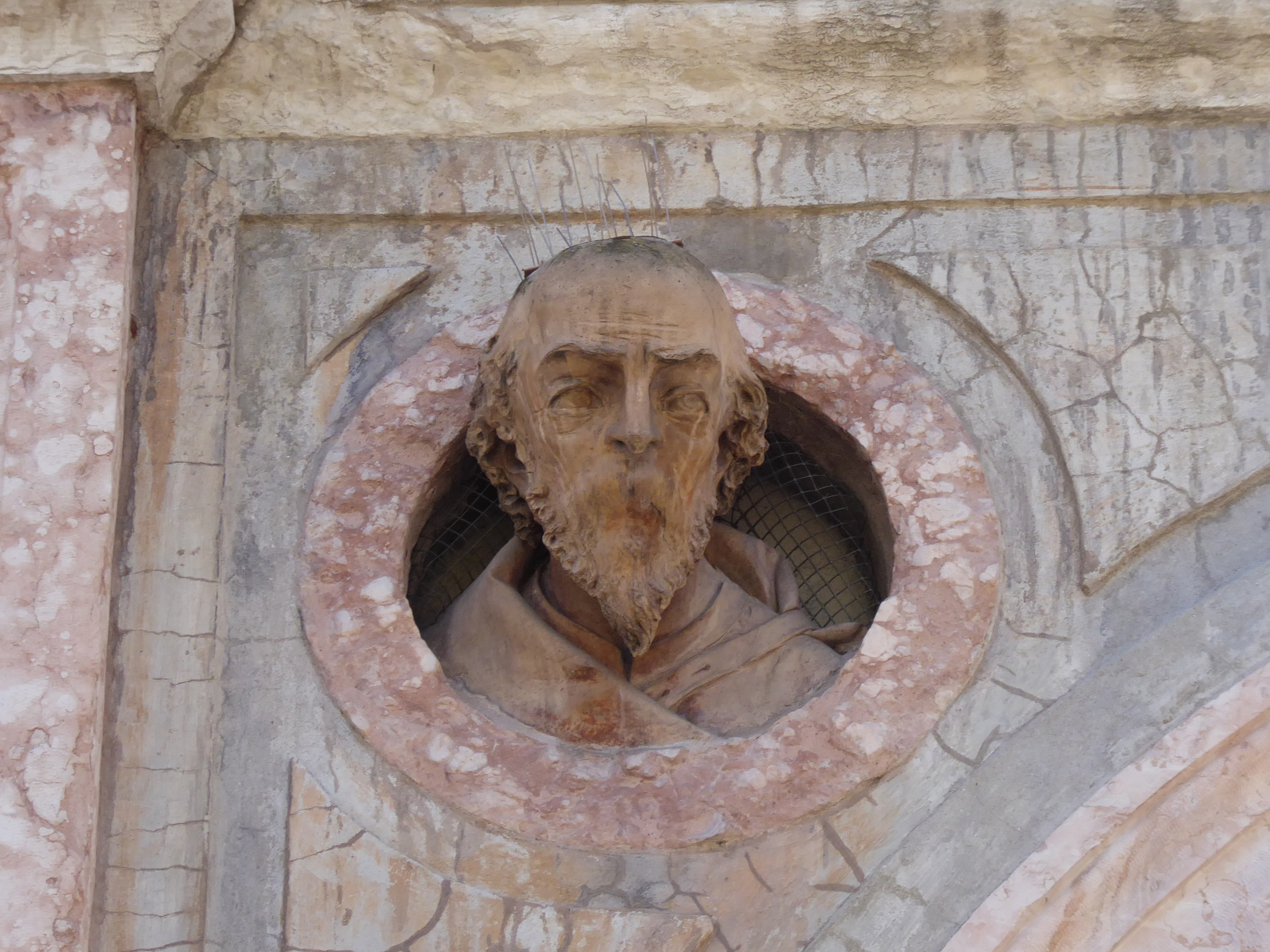 Bust of Antonio da Trento on the facade of Palazzo Ranzi, in Trento, by Andrea Malfatti